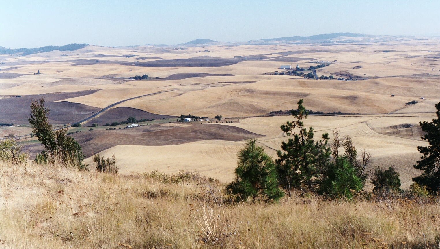 The Palouse region of Eastern Washington, looking southeast from Kamiak Butte State Park. Ilyaunfois 03:13, 7 January 2007 (UTC)